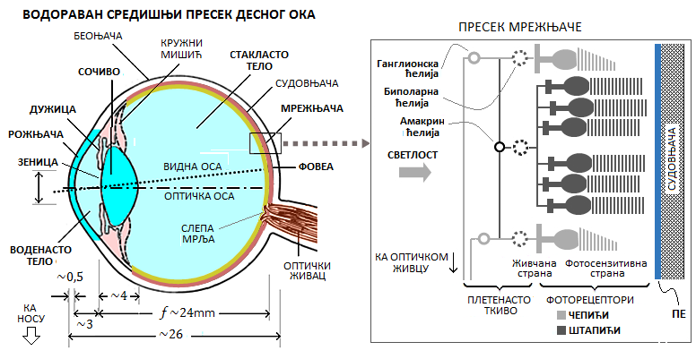 ЉУДСКО ОКО, ФОТОРЕЦЕПТОРИ